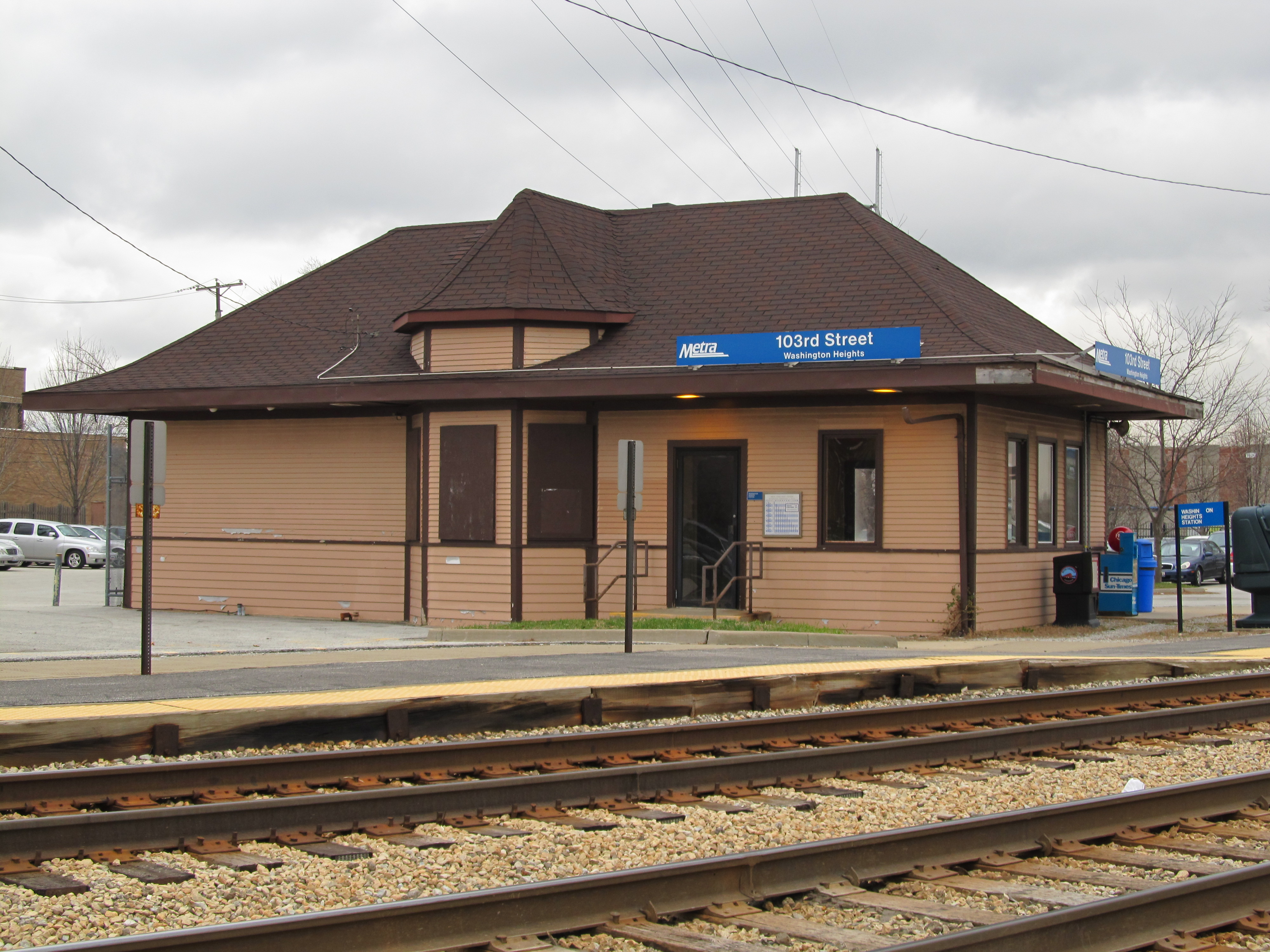 10335 S Vincennes Ave Chicago, IL 60643 Metra Rock Island District Line (Vincennes Branch) Zone C